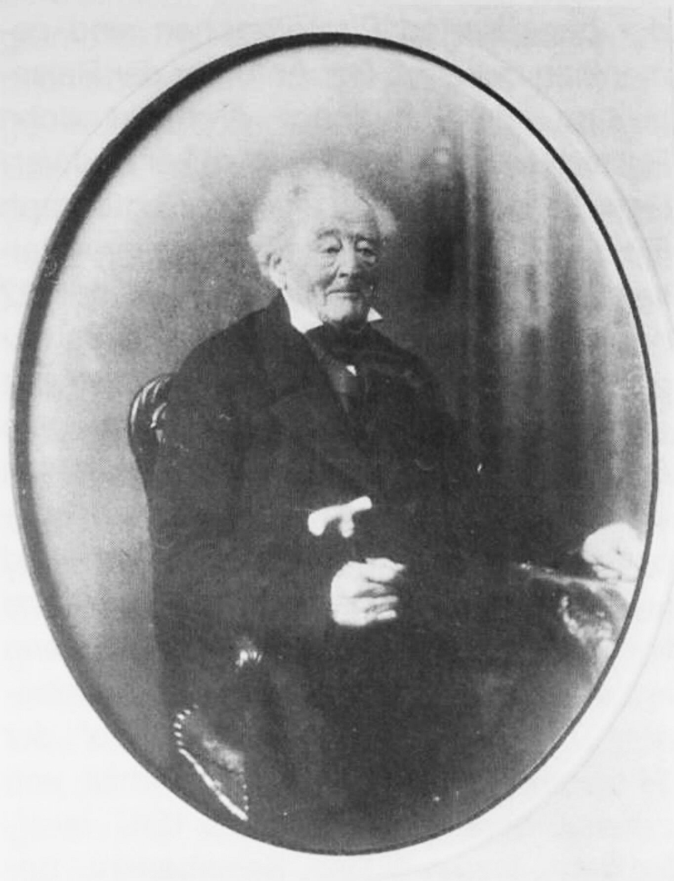 Franz Georg Severus Weckbecker